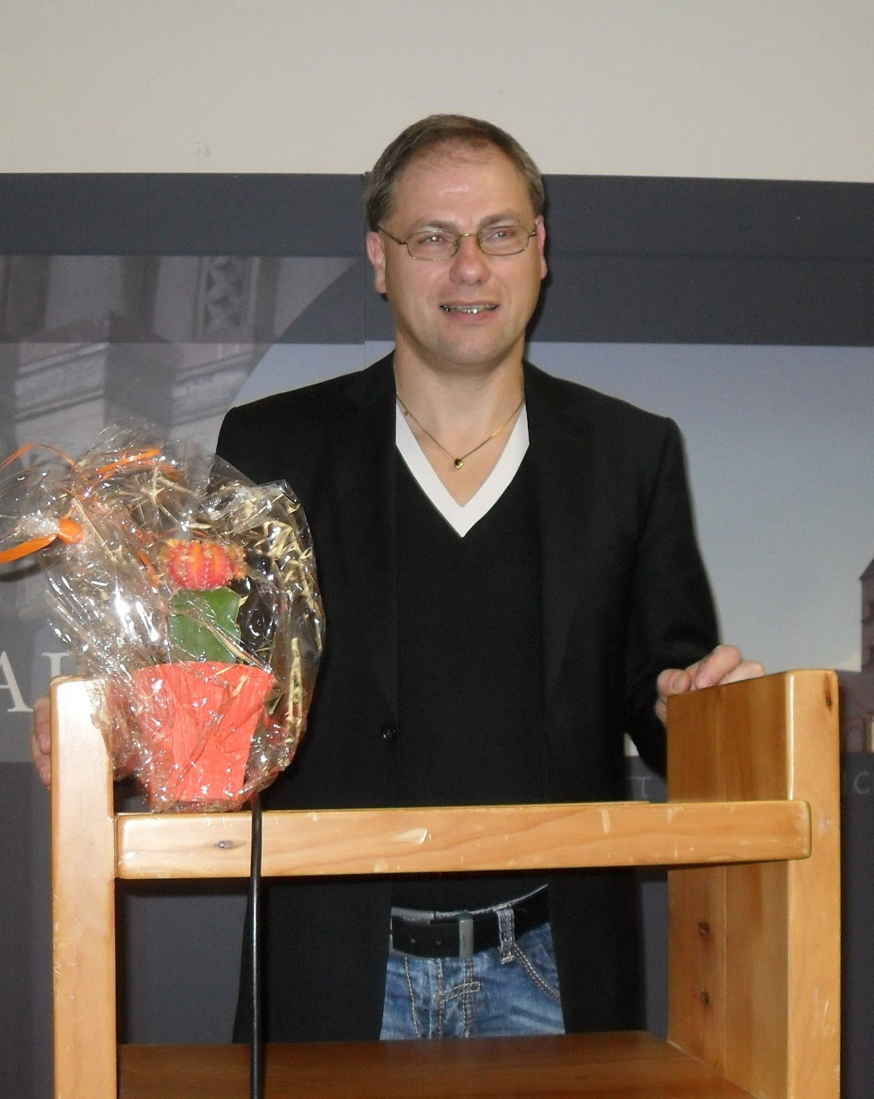 Author Dr. Peter Schmidt lecturing at Laacher Forum, Maria Laach, Germany, 9 Nov 2012.